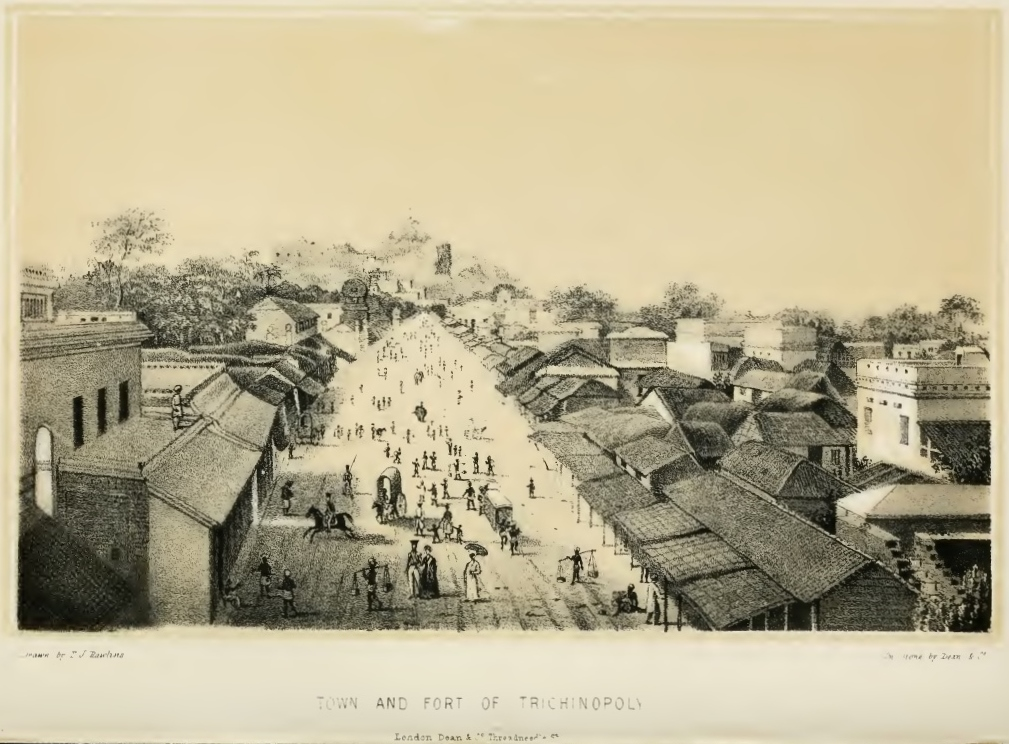 Town and Fort of Trichinopoly (Corner, 1840, p.302)